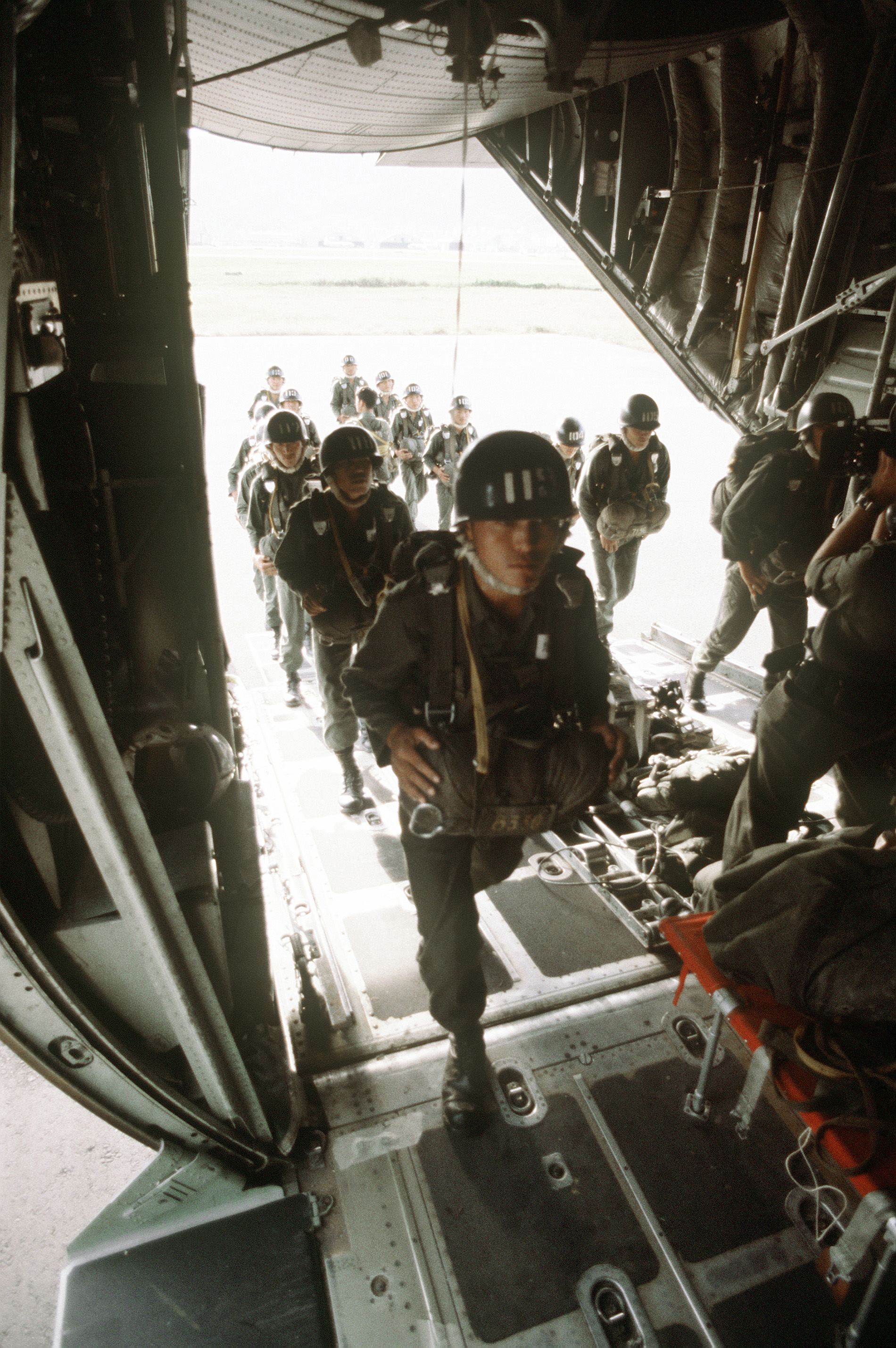 Korean paratroopers board a C-130 Hercules aircraft during exercise Purple Duck, a deployment from Yokota Air Base, Japan, to Kwang Ju Air Base, Korea, for joint operation readiness maneuvers with Korean troopers. Scope & Content The original finding aid described this photograph as: Subject Operation/Series: PURPLE DUCK Base: Kwang Ju Air Base Country: Korea Scene Camera Operator: TSGT Mike Daniels Release Status: Released to Public